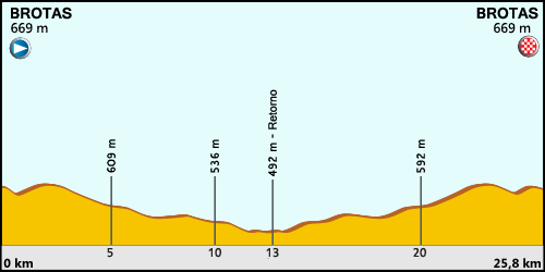 Profile of the 4th stage of the 2014 Volta Ciclística de São Paulo